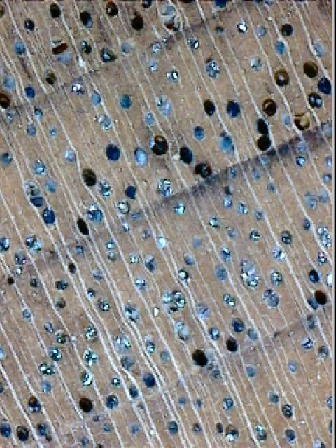 This is a cross section from a black walnut coffin board over 140 years old. I photographed this as part of my thesis research on the tomb this coffin came out of. It was taken with a 10x digital microscope. Author: Fred Sutherland. Taken: January 6, 2006.